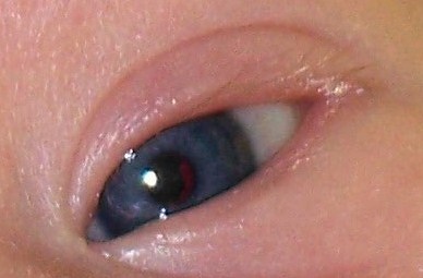 Natural human Violet eye color.